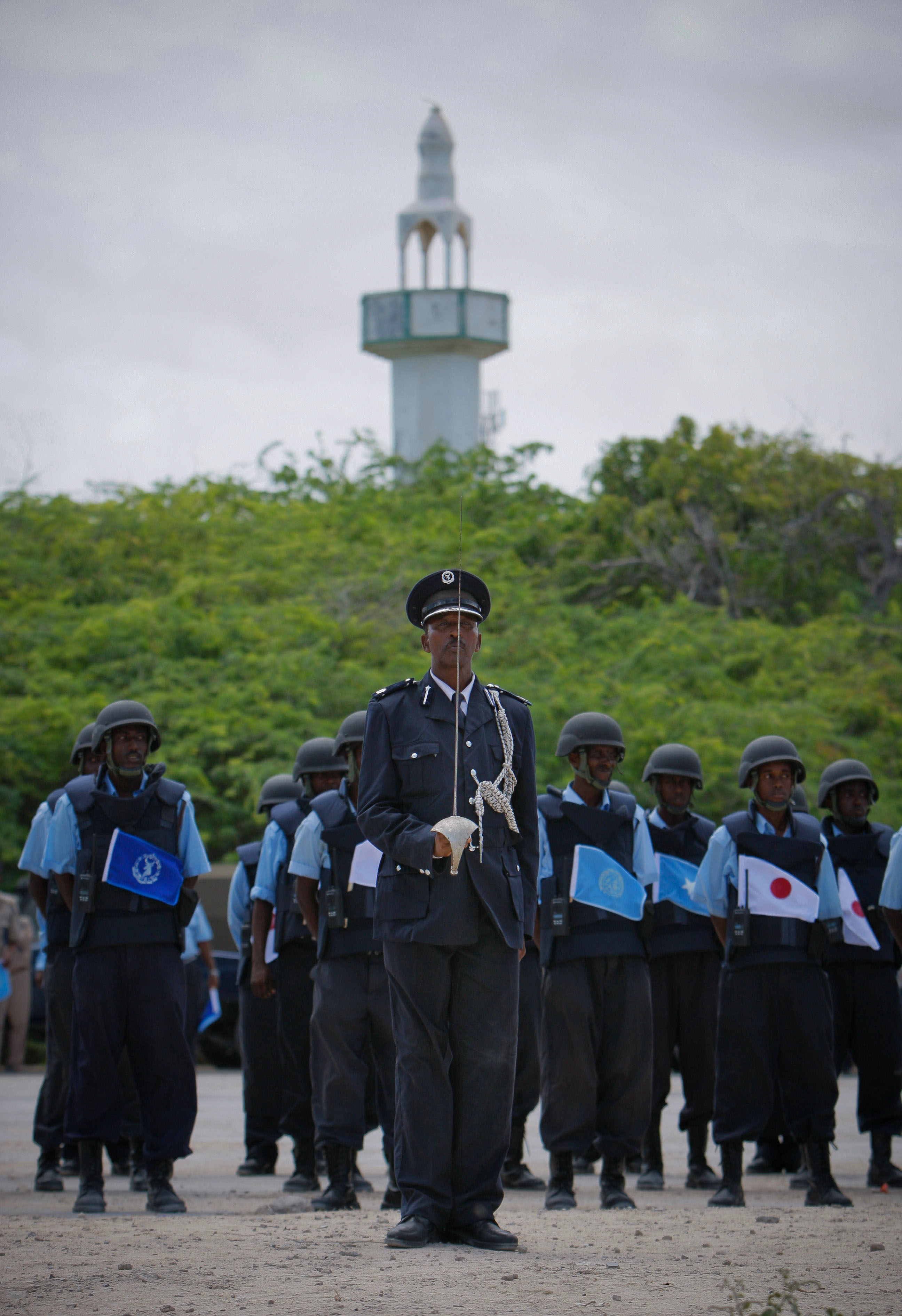 Somali Police Force (SPF) officers stand on parade 07 May 2012, ahead of a handover ceremony of equipment donated by the Government of Japan through the United Nations Political Office for Somalia (UNPOS) Trust Fund to support the rebuilding of the SPF in the Somali capital Mogadishu. The equipment included a motor transport fleet of 15 pick-up trucks, two troop personnel carries and two ambulances, 1.800 ballistic helmets and sets of handcuffs, over 1,000 VHF radio handsets, and musical instruments for the police band. AU-UN IST PHOTO / STUART PRICE.